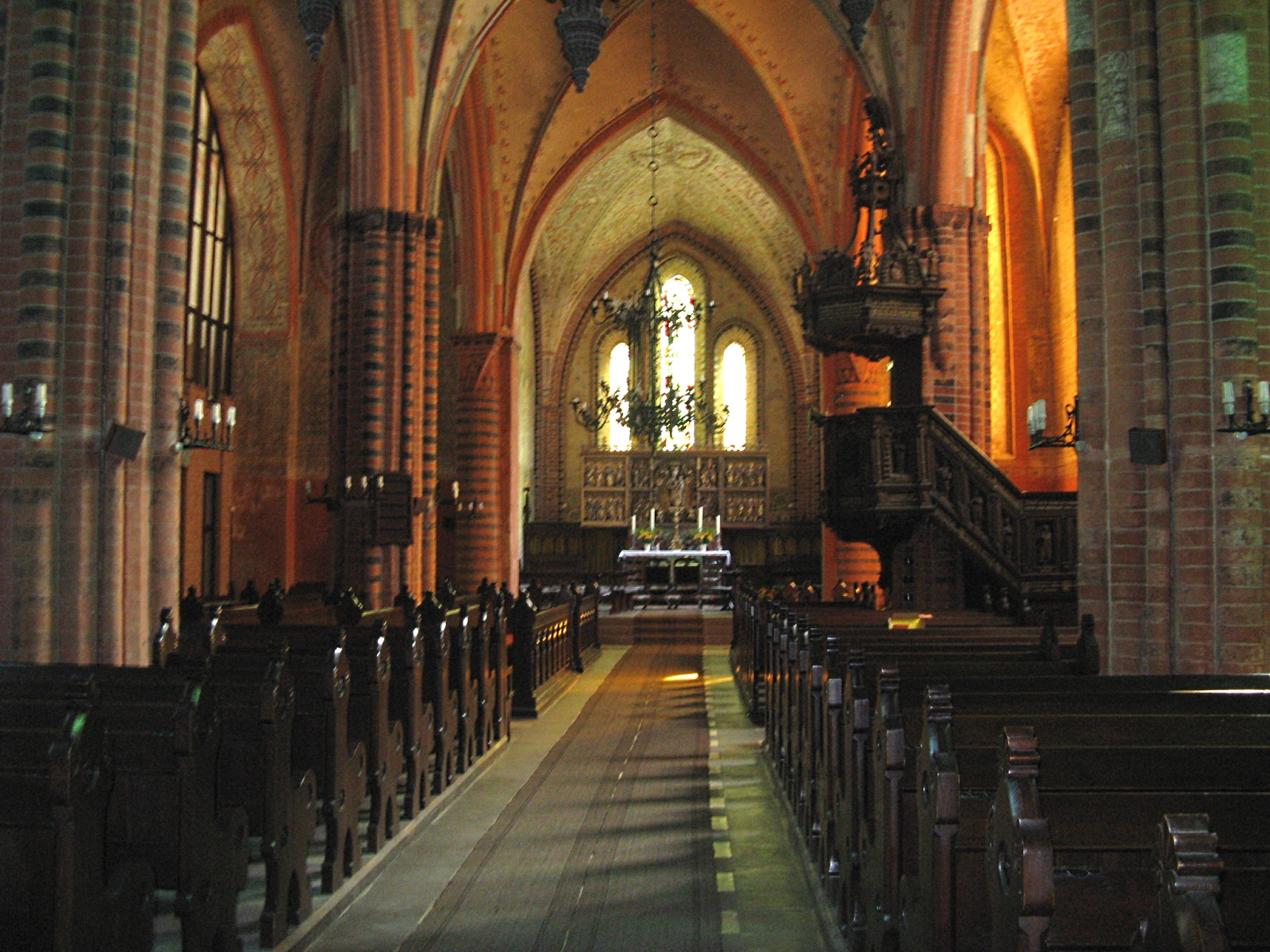 Church St. Marien in Parchim, Mecklenburg-Vorpommern, Germany - inside